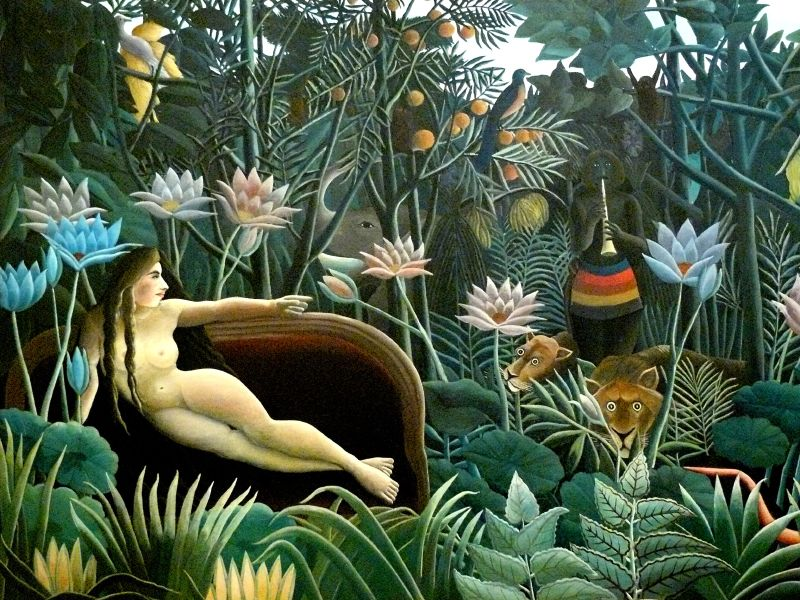 Henri Rousseau. The Dream. 1910. Oil on canvas, 6' 8 1/2" x 9' 9 1/2" (204.5 x 298.5 cm). Gift of Nelson A. Rockefeller Wikipedia Loves Art at the Museum of Modern Art This photo of item # 252.1954 at the Museum of Modern Art was contributed under the team name "trish" as part of the Wikipedia Loves Art project in February 2009. Museum of Modern Art The original photograph on Flickr was taken by Trish Mayo—please add a comment to the original Flickr page whenever a use has been made on Wikipedia or another project. Project galleries on Flickr: this institution, this team Henri Rousseau. The Dream. 1910. Oil on canvas, 6' 8 1/2" x 9' 9 1/2" (204.5 x 298.5 cm). Gift of Nelson A. Rockefeller Wikipedia Loves Art at the Museum of Modern Art This photo of item # 252.1954 at the Museum of Modern Art was contributed under the team name "trish" as part of the Wikipedia Loves Art project in February 2009. Museum of Modern Art The original photograph on Flickr was taken by Trish Mayo—please add a comment to the original Flickr page whenever a use has been made on Wikipedia or another project. Project galleries on Flickr: this institution, this team